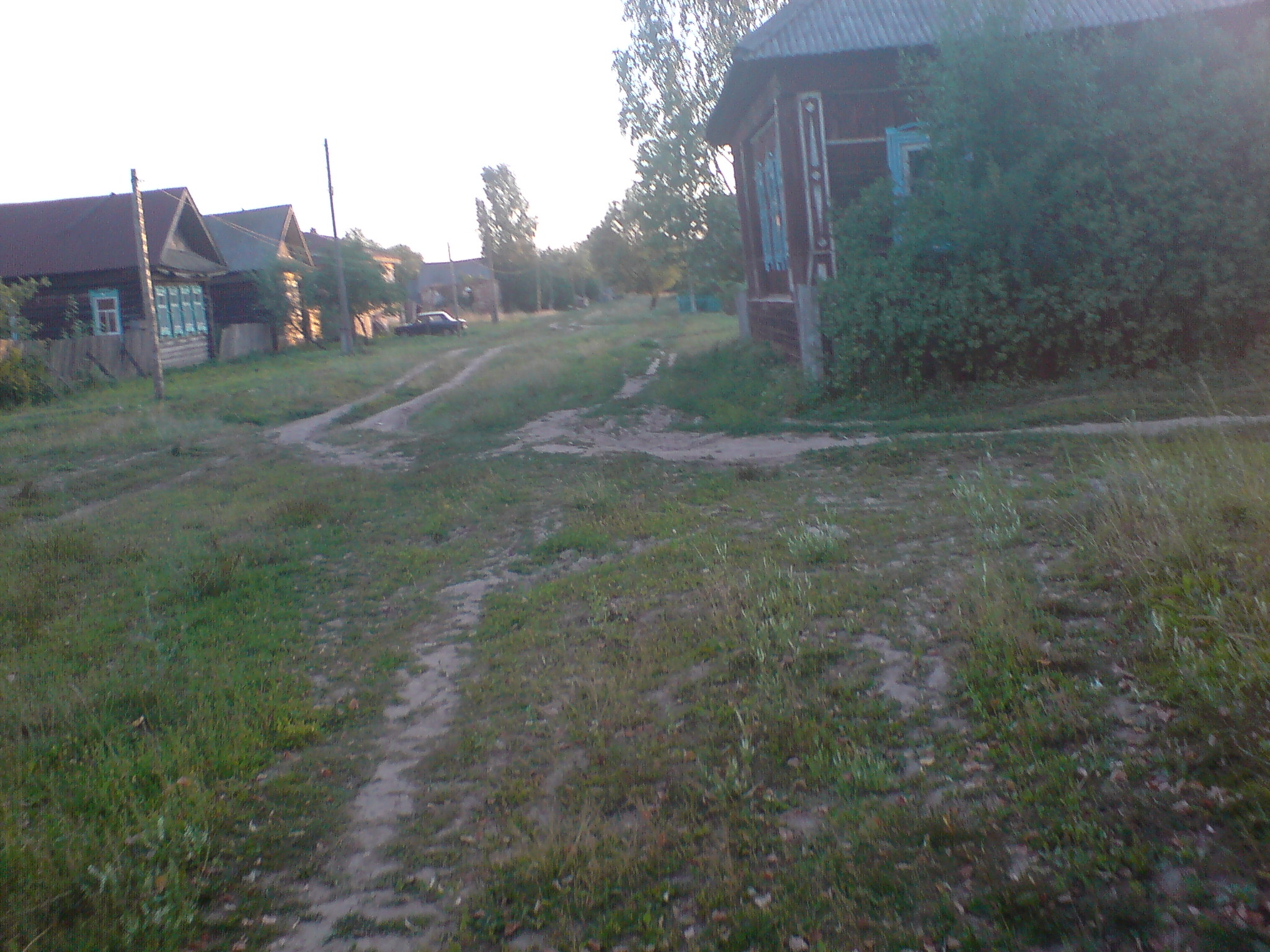 Votchina